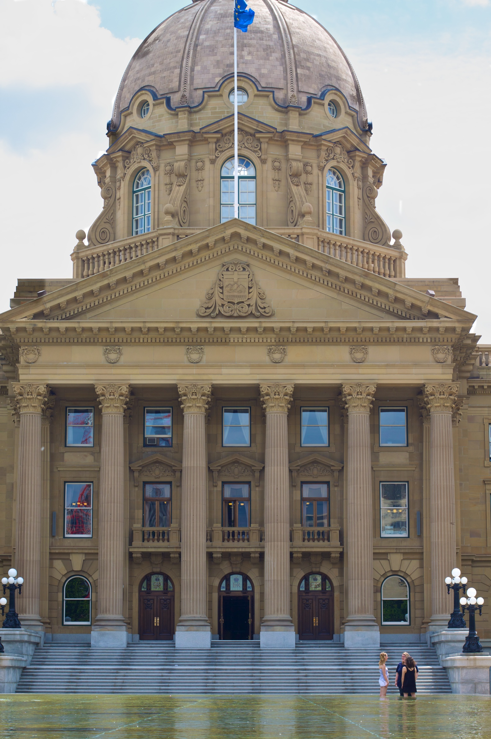 The shallow reflection pool in front of the Legislature Building was full of people enjoying a dip; it seemed like the main activity there today.